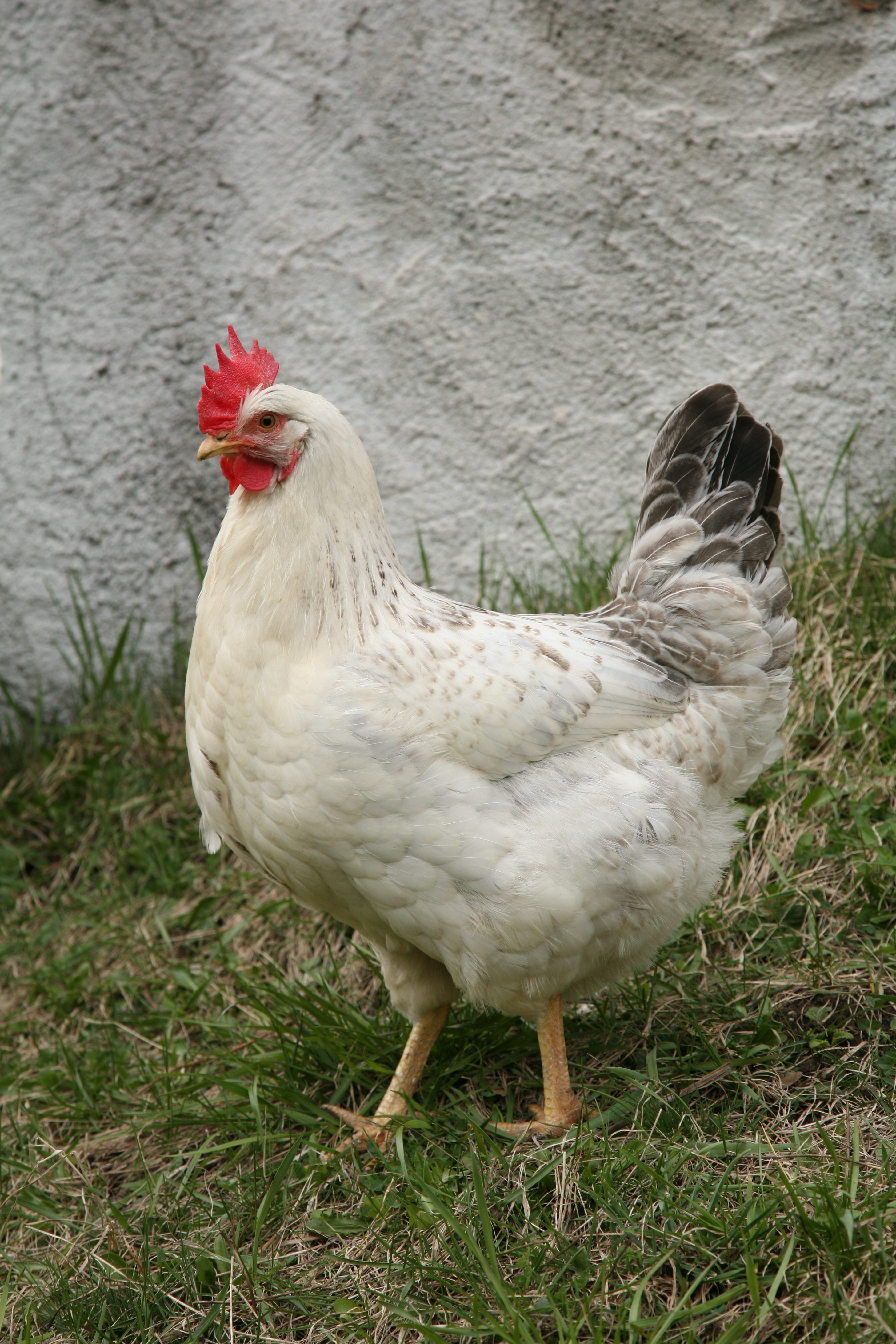 Hen in Coltura, Switzerland